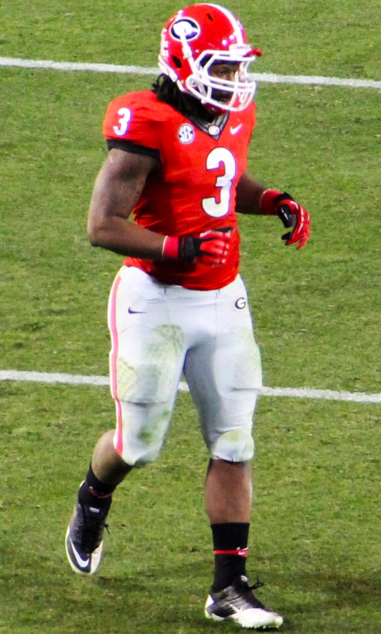 Running back Todd Gurley, 2013